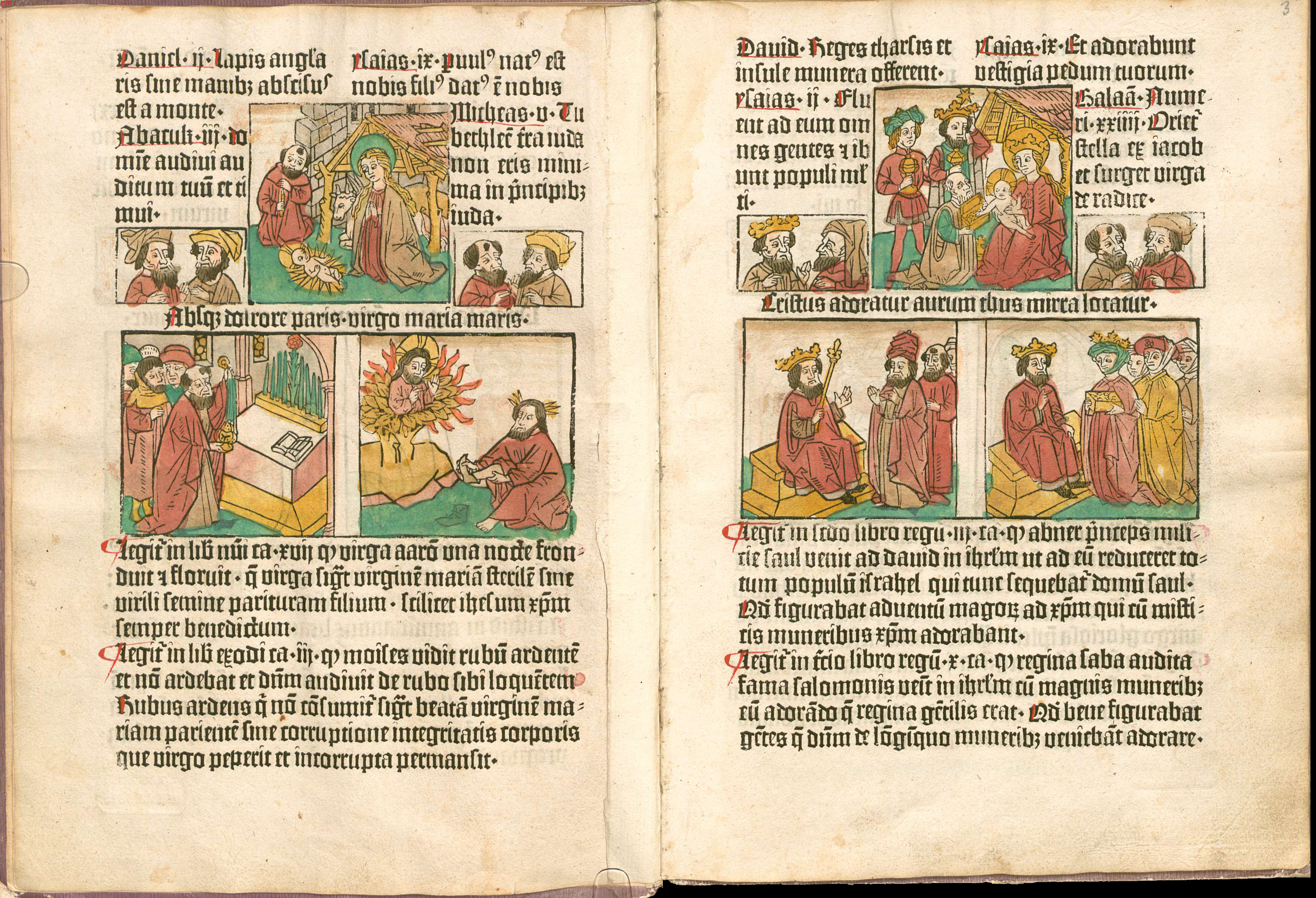 Spread from the Biblia Pauperum printed by Albrecht Pfister in 1462/1463. Copy of the Bayerische Staatsbibliothek.